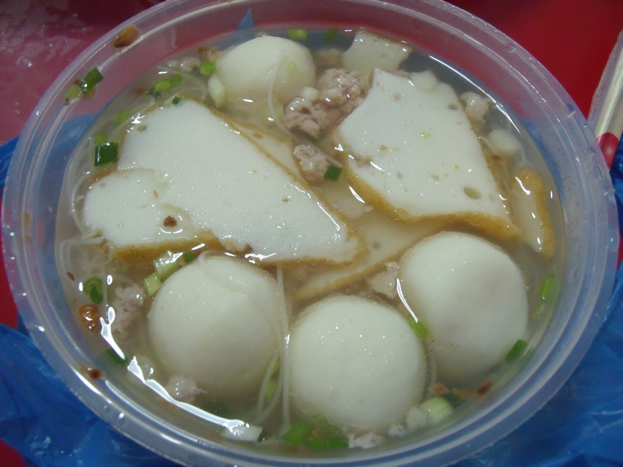 Lunch from Bukit Batok.